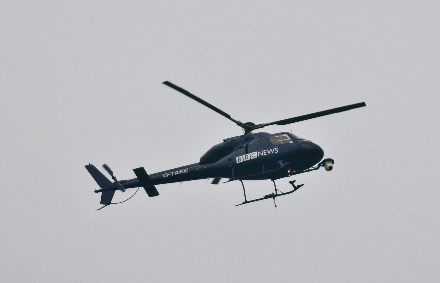 BBC News helicopter watching over the cuts protest